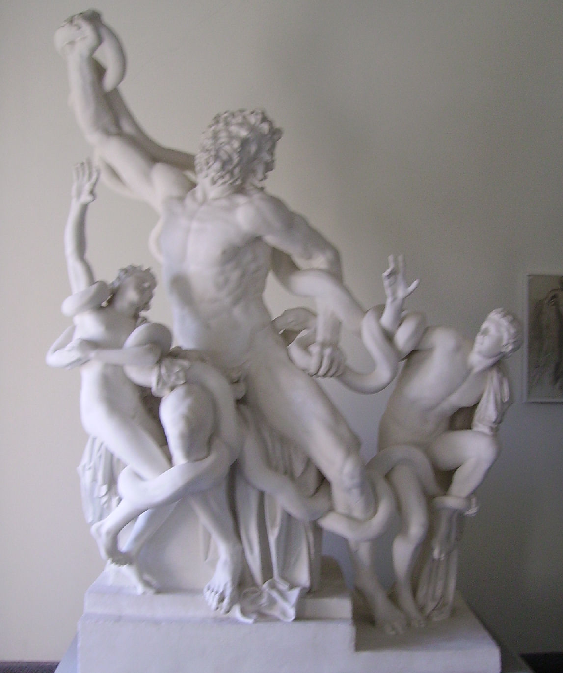 inside of Mannheim castle, Germany